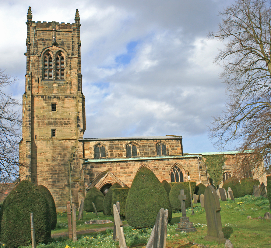 Parish Church next to Elvaston Castle, Derbyshire.